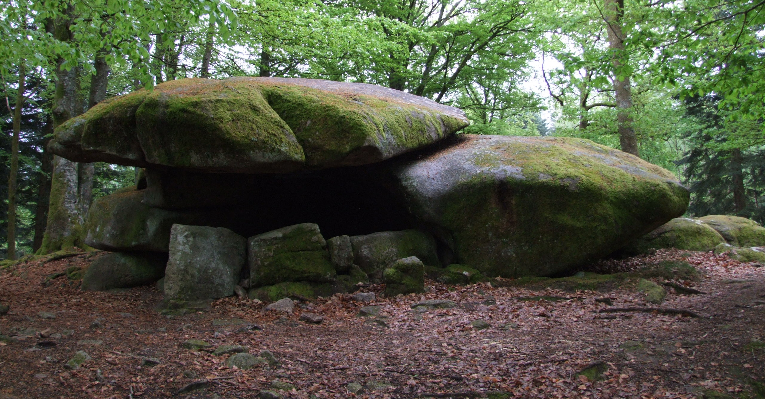 Morvan, Nievre, Burgundy, FRANCE